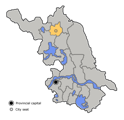 Derivatives of "Map of prefectures of Jiangsu Province"